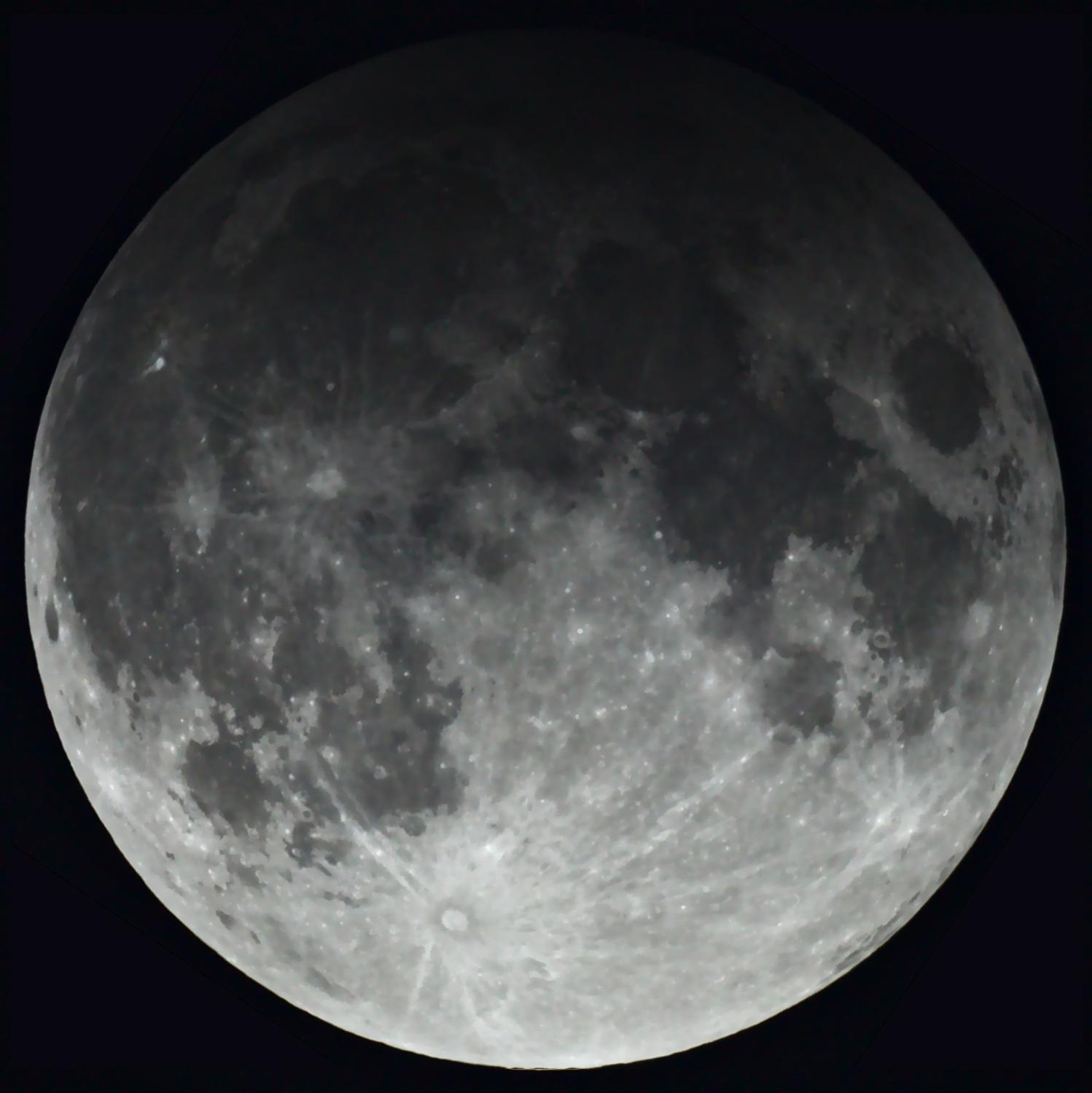 Lunar eclipse of 2017 February 11